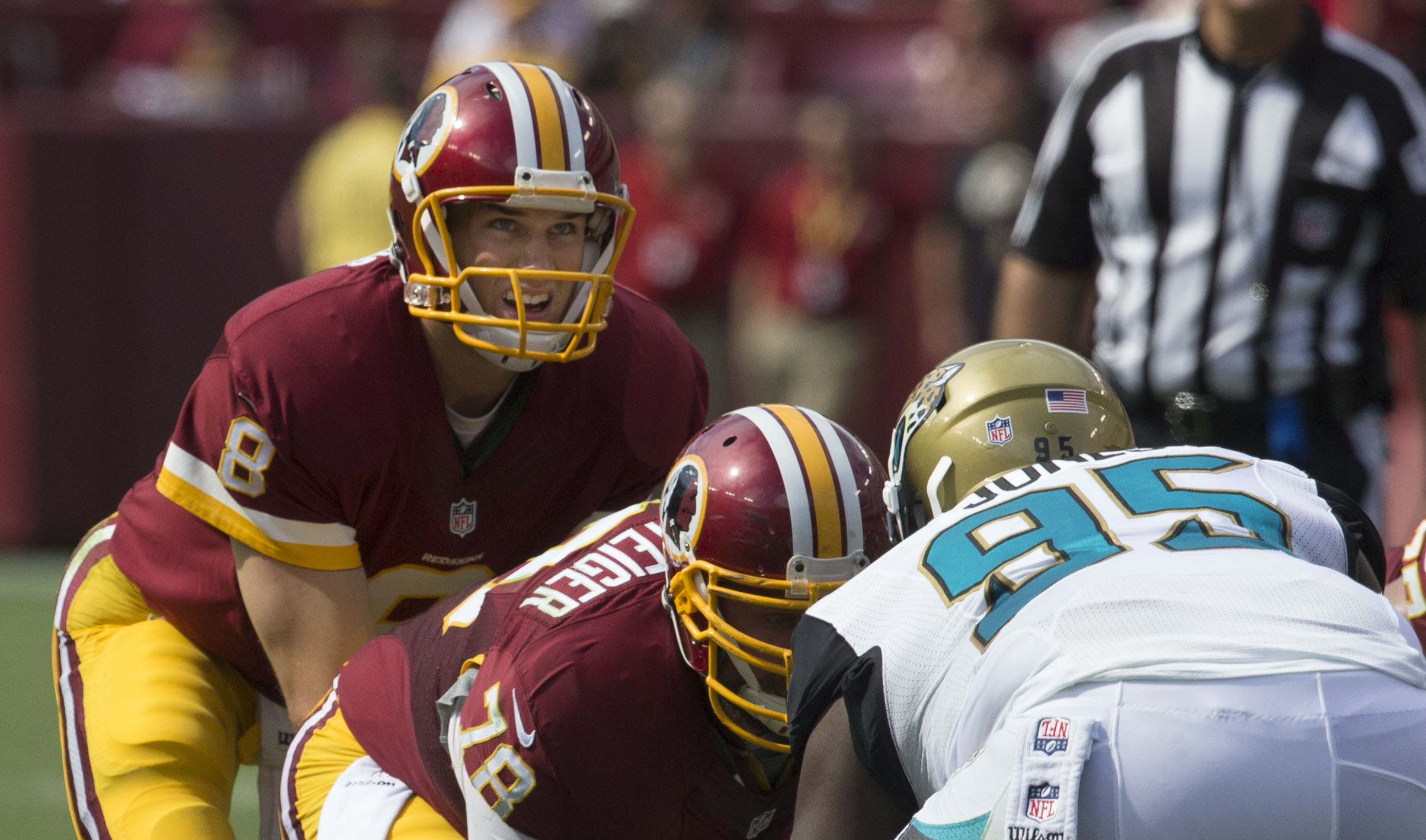 Jaguars at Redskins 9/14/14